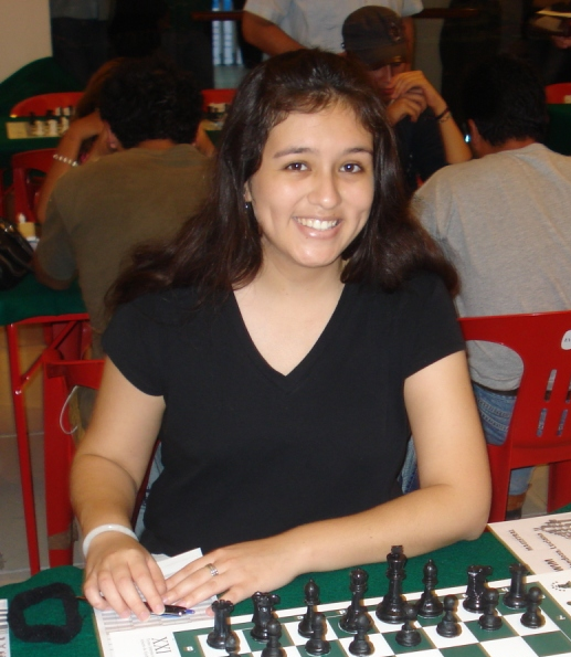 WIM Luciana Morales Mendoza Peru, Merida 2008